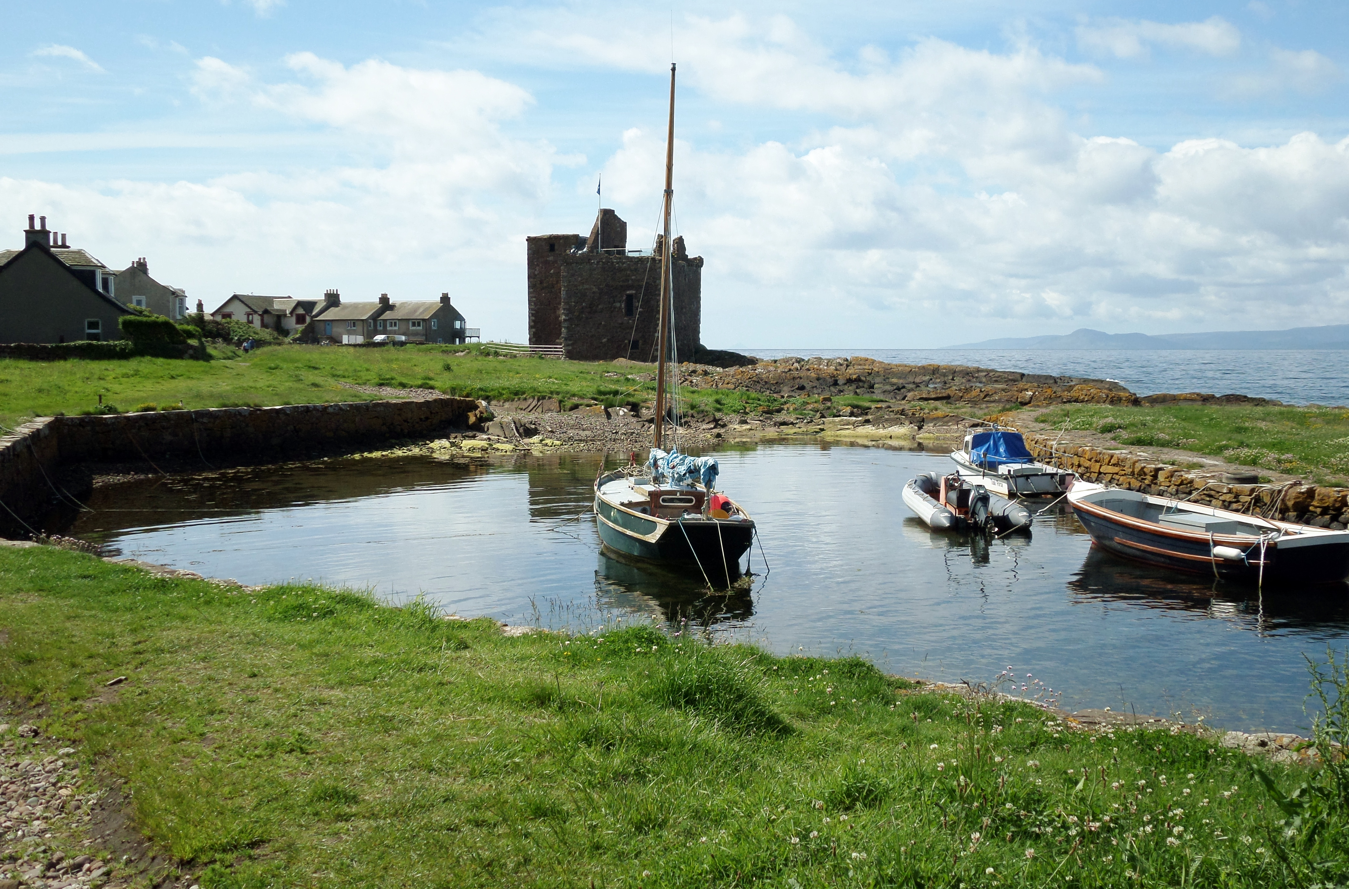 The harbour and castle at Portencross, West Kilbride, North Ayrshire, Scotland.